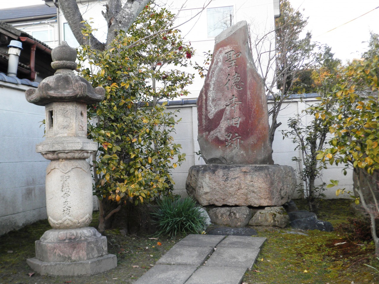 The site of Shōtoku-ji in Ichinomiya, Aichi.